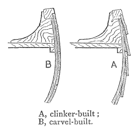 Illustration from 1908 Chambers's Twentieth Century Dictionary. Clinker-built, adj. made of planks which overlap each other below (as distinguished from carvel-built) and are fastened together with clinched nails.